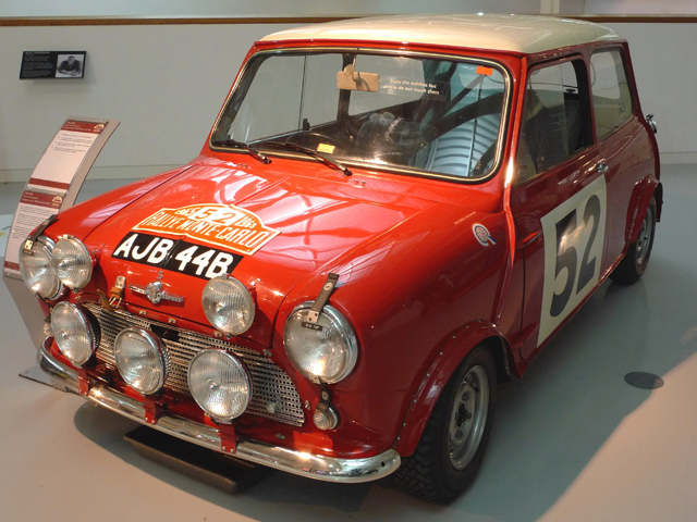 1964 Morris Mini Cooper S Driven by Timo Makinen with Paul Easter as co-driver, AJB 44B took overall victory in the 1965 Monte Carlo Rally.